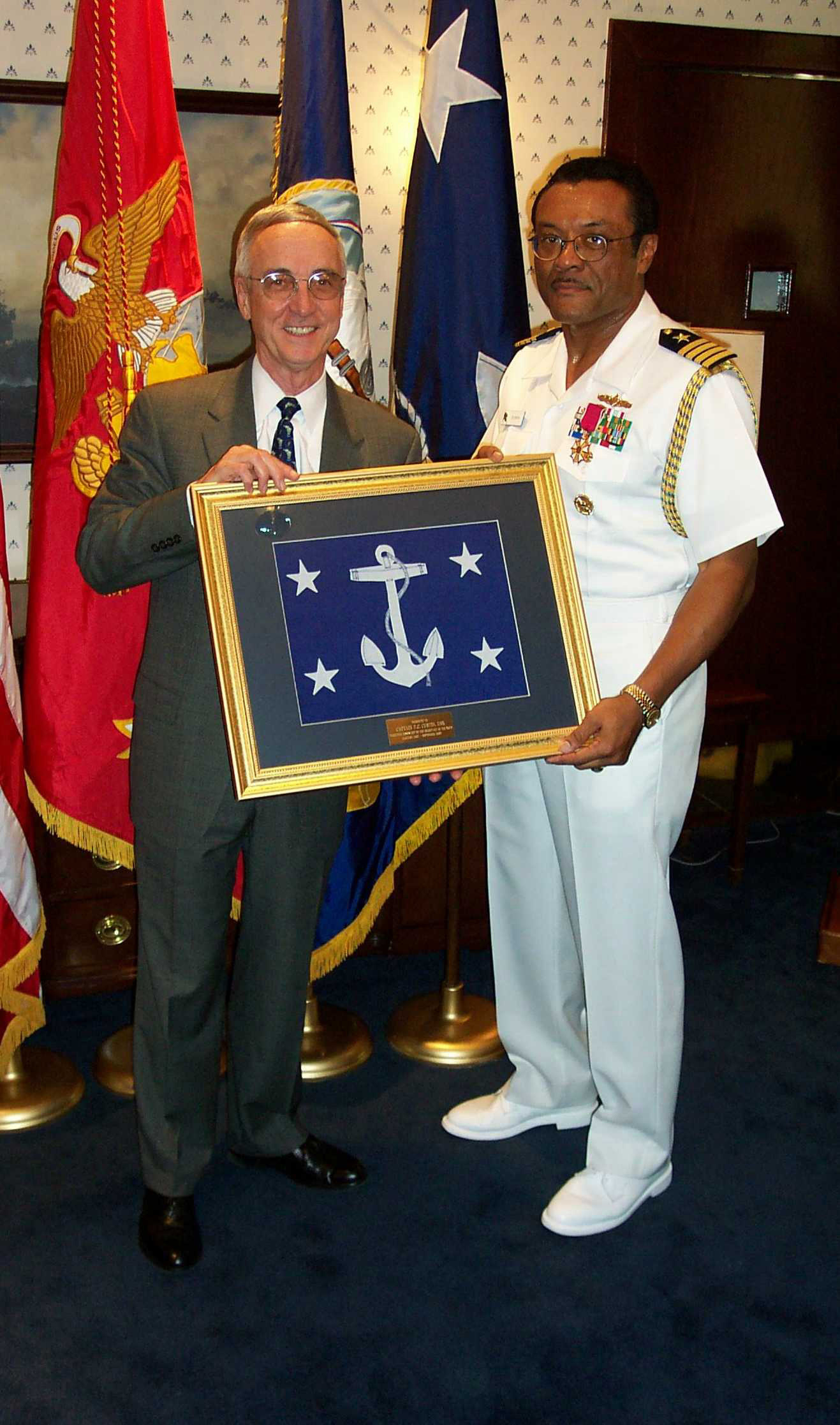 The Honorable Gordon R. England, Secretary of the Navy (SECNAV), presents Rear Adm. (sel) D.C. Curtis a framed SECNAV flag in honor of his departure as SECNAV Executive Assistant. Curtis held the post for almost two years and is departing to assume command of Commander Surface Group Two in Mayport, Fla. U.S. Navy photo by Journalist 2nd Class Mark O'Donald.